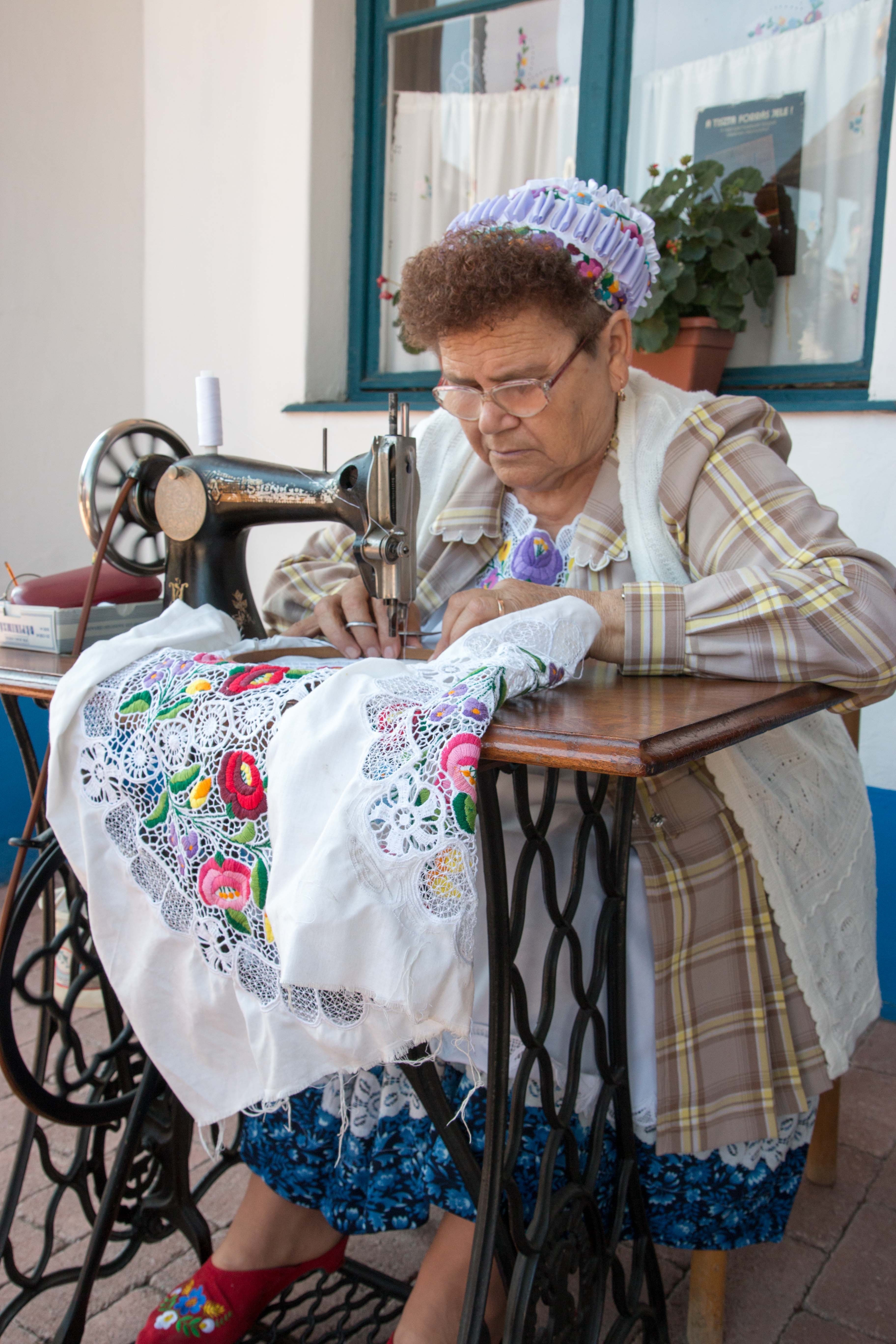 A woman from Kalocsa, sewing.